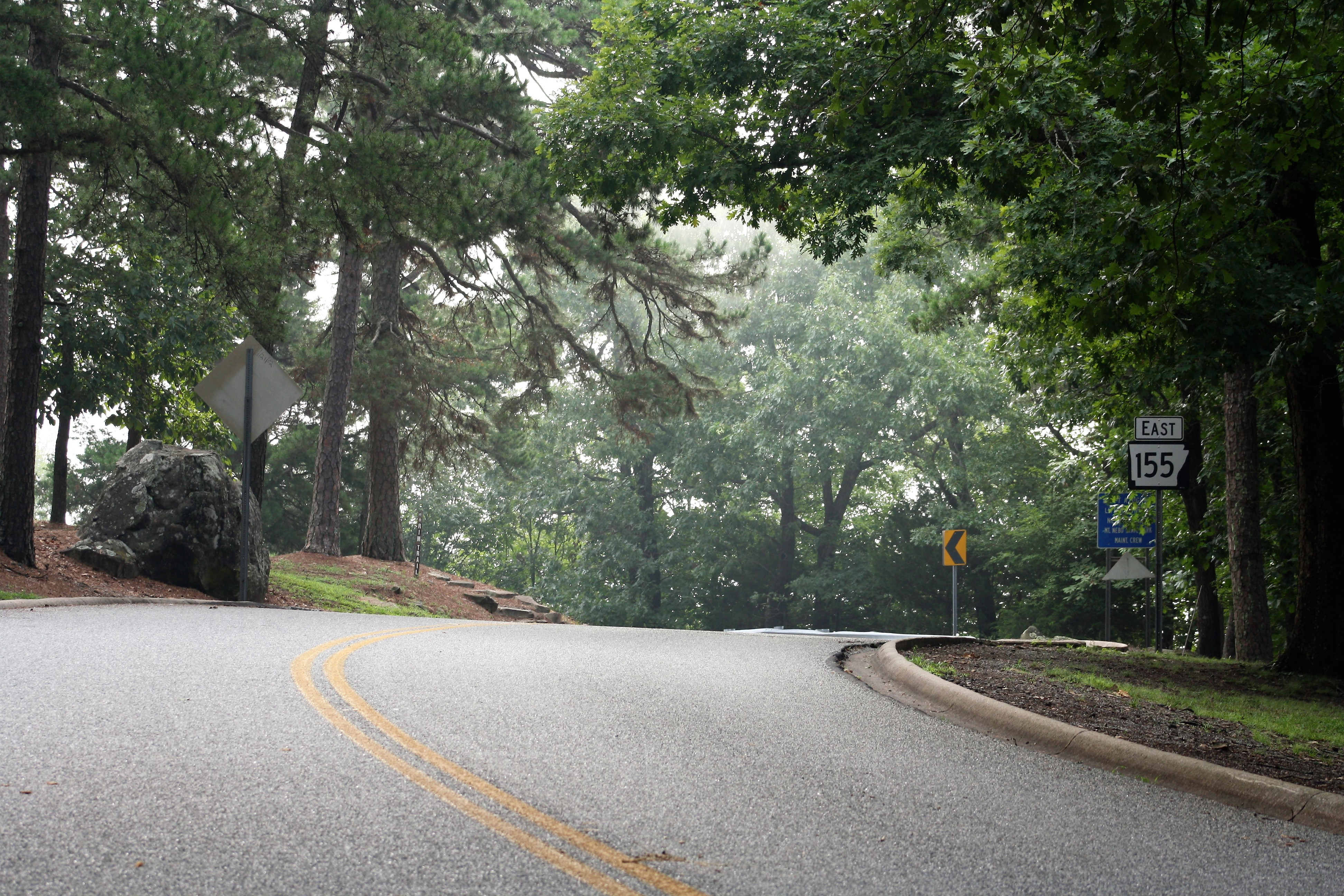 Arkansas Highway 155 runs east atop Mount Nebo in Mount Nebo State Park. Switchback showing curvy alignment